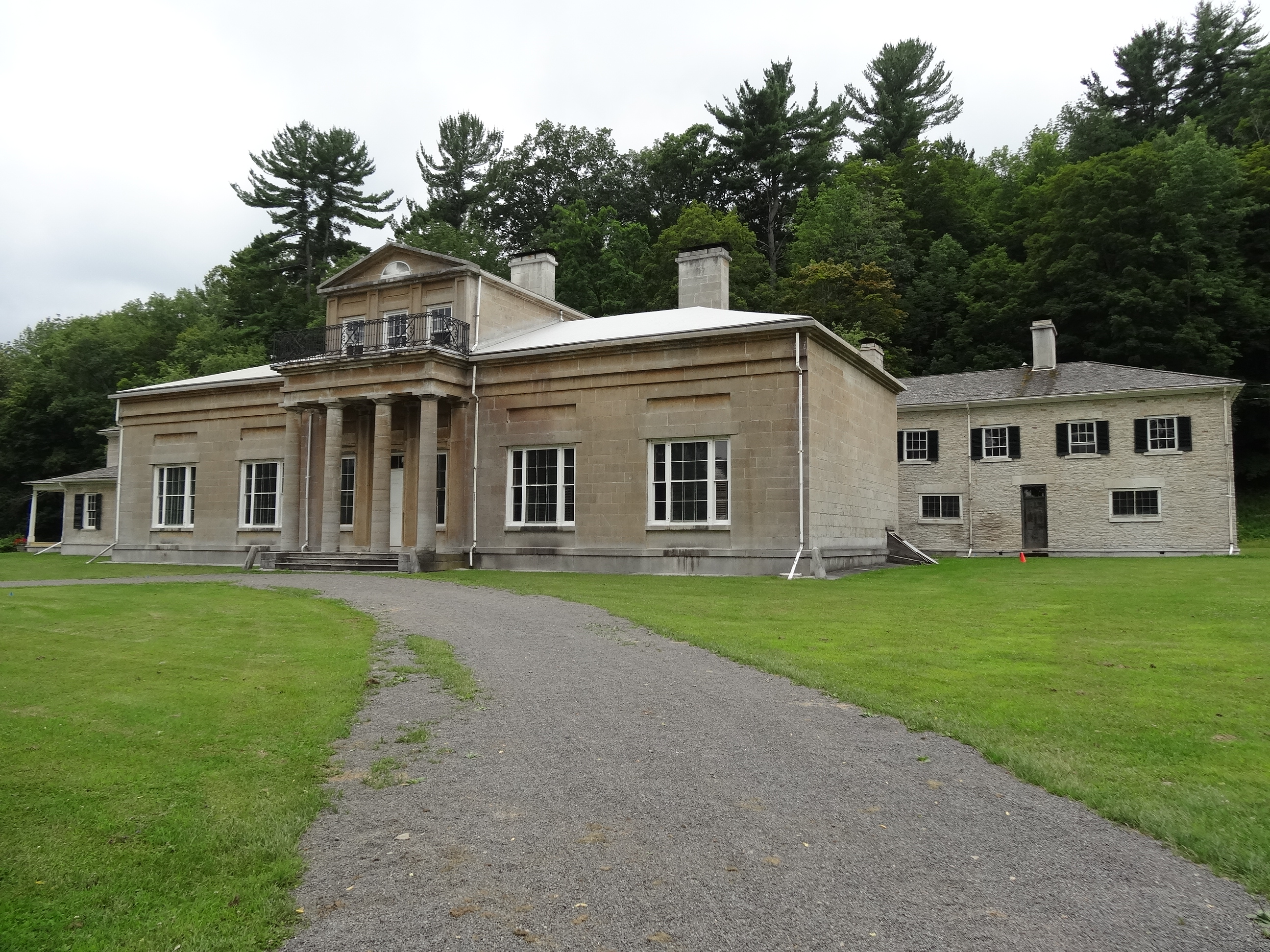 Hyde Hall, Glimmerglass State Park